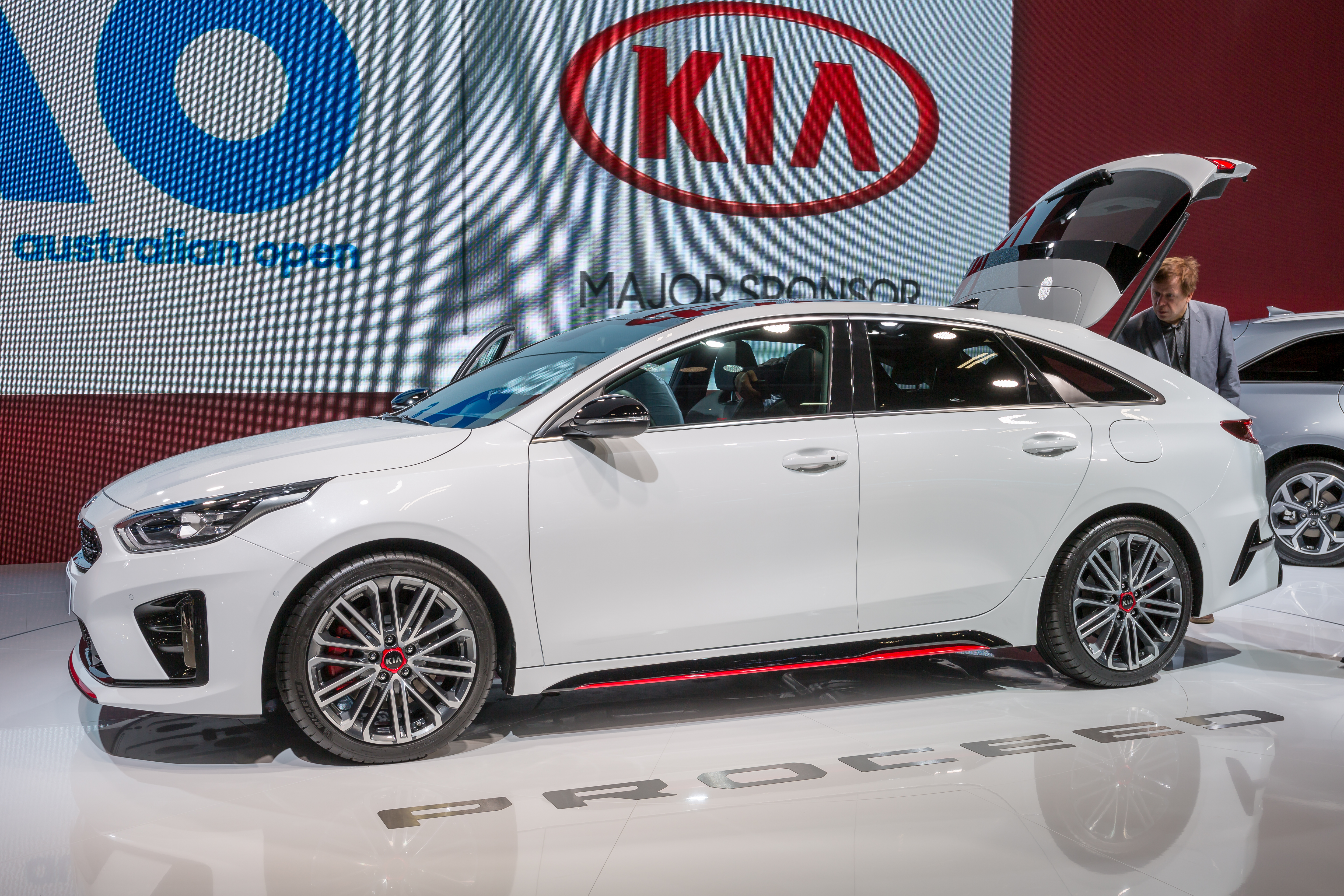 Kia Proceed at Mondial Paris Motor Show 2018